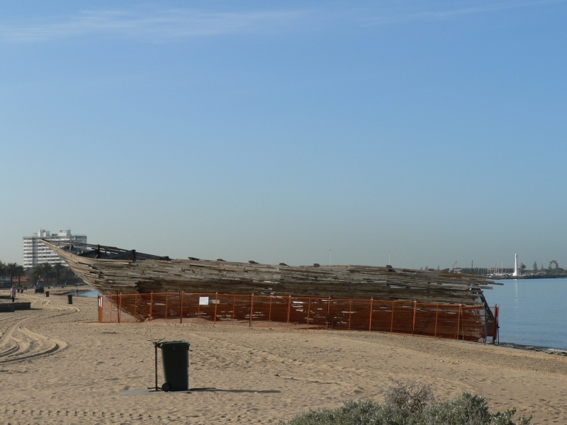 Lady of St Kilda wreck (sculpture)